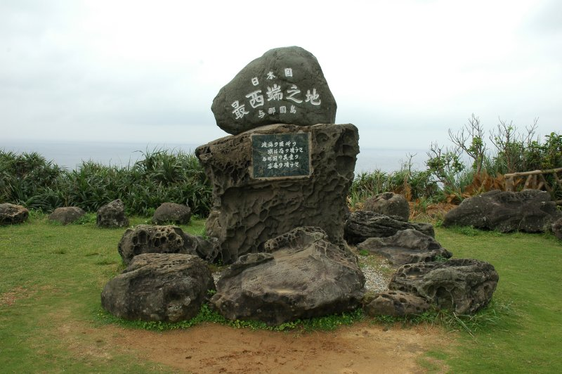 Irizaki, Westernmost point